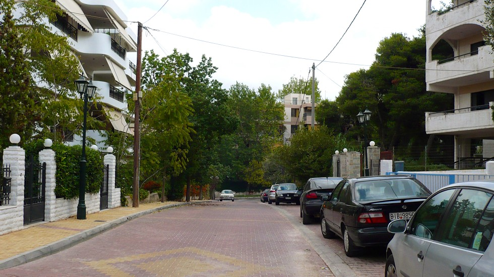 neighbourhood